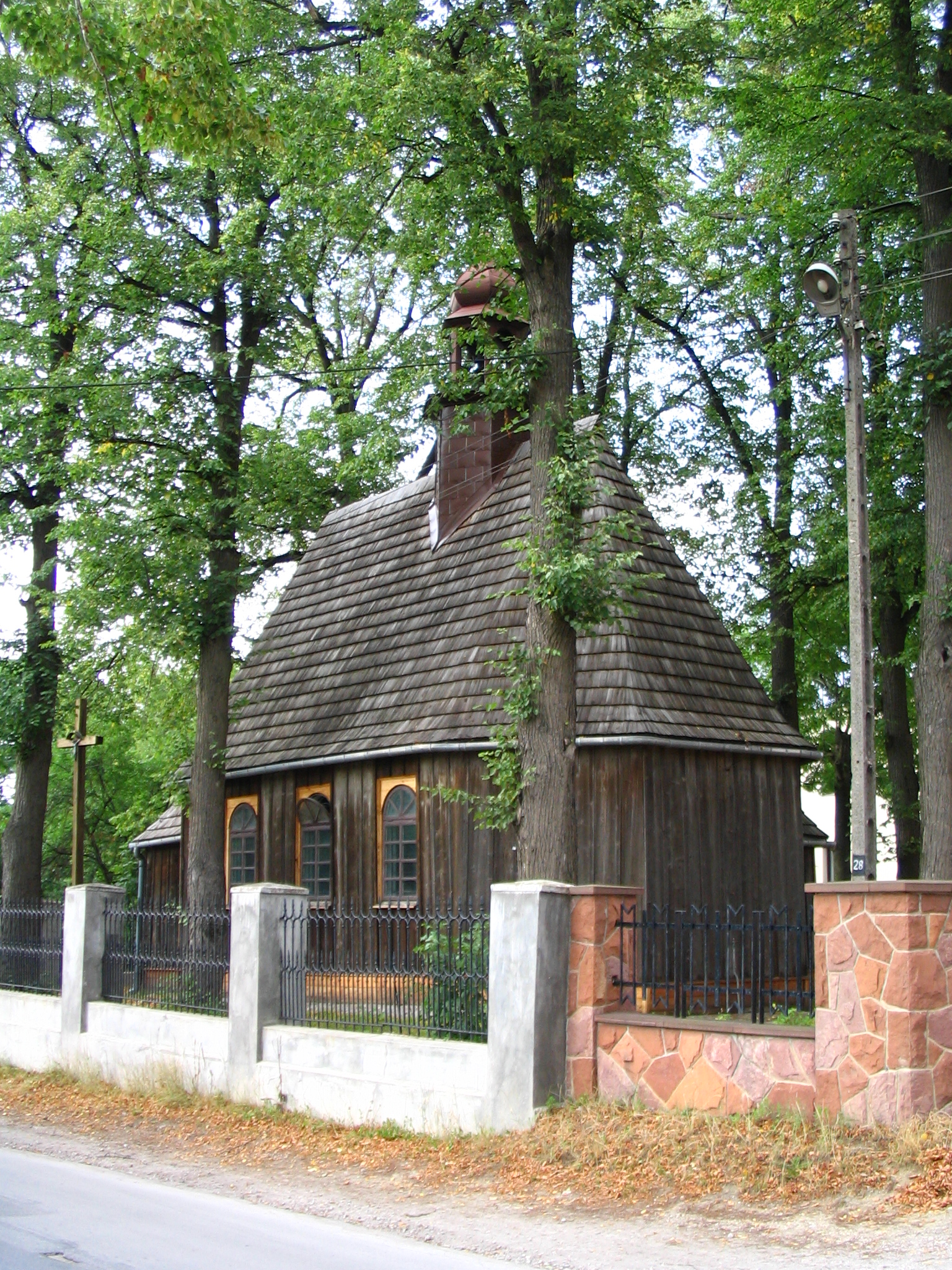 Historic church in Dąbrowa, Kielce, Poland, 2006.